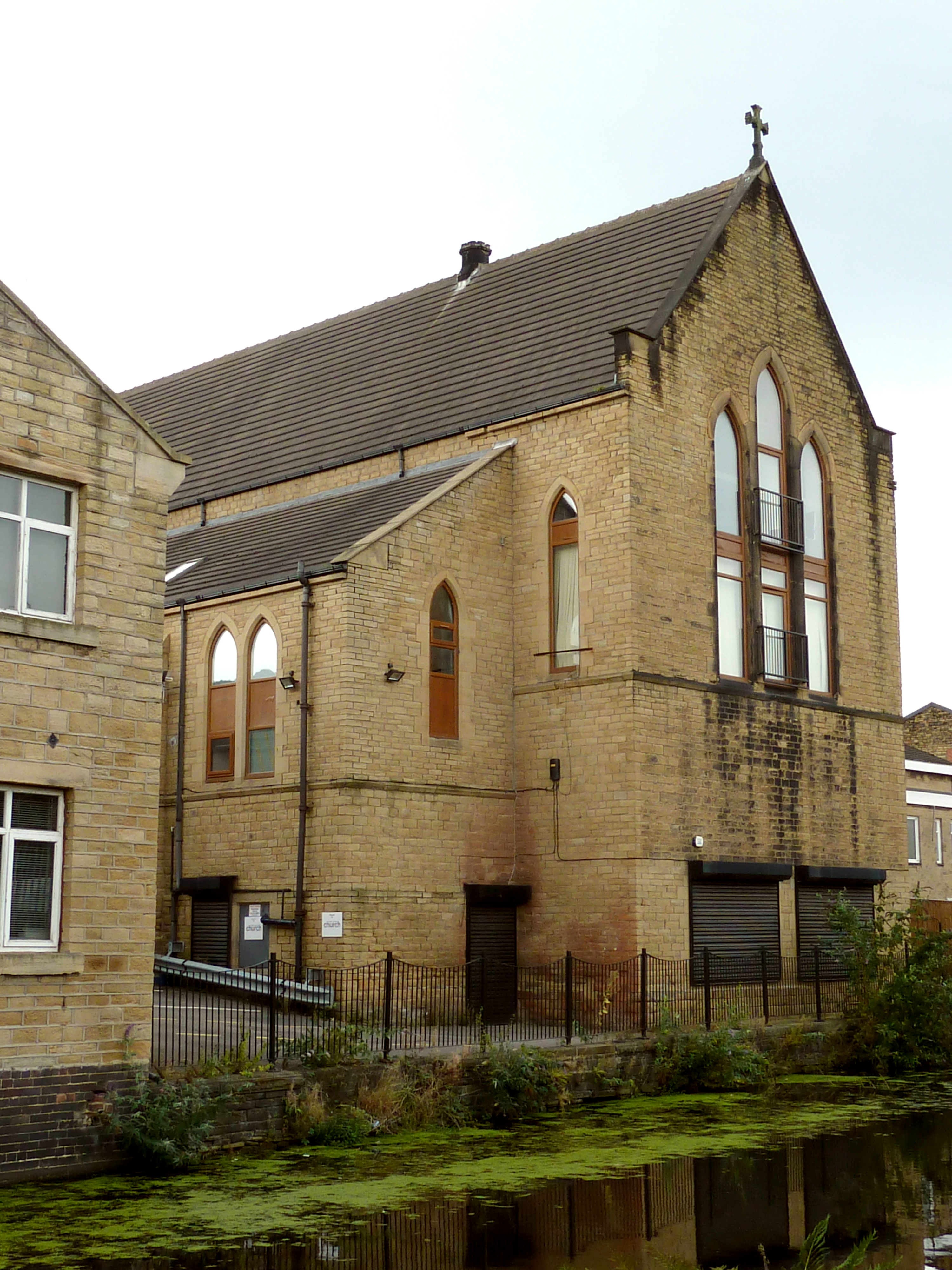 Former Church of St Mark, Old Leeds Road, Huddersfield, North Yorkshire, England. Built 1887, designed by architect William Swinden Barber. South-east view of building, with Huddersfield Broad Canal in foreground.